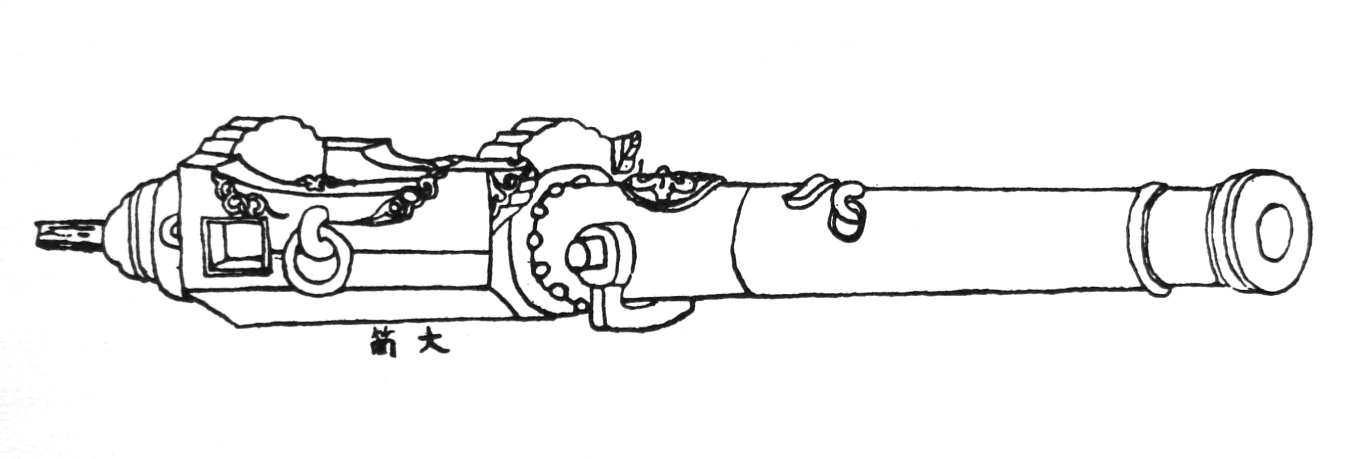 Oozutsu cannon Japan 16th century.